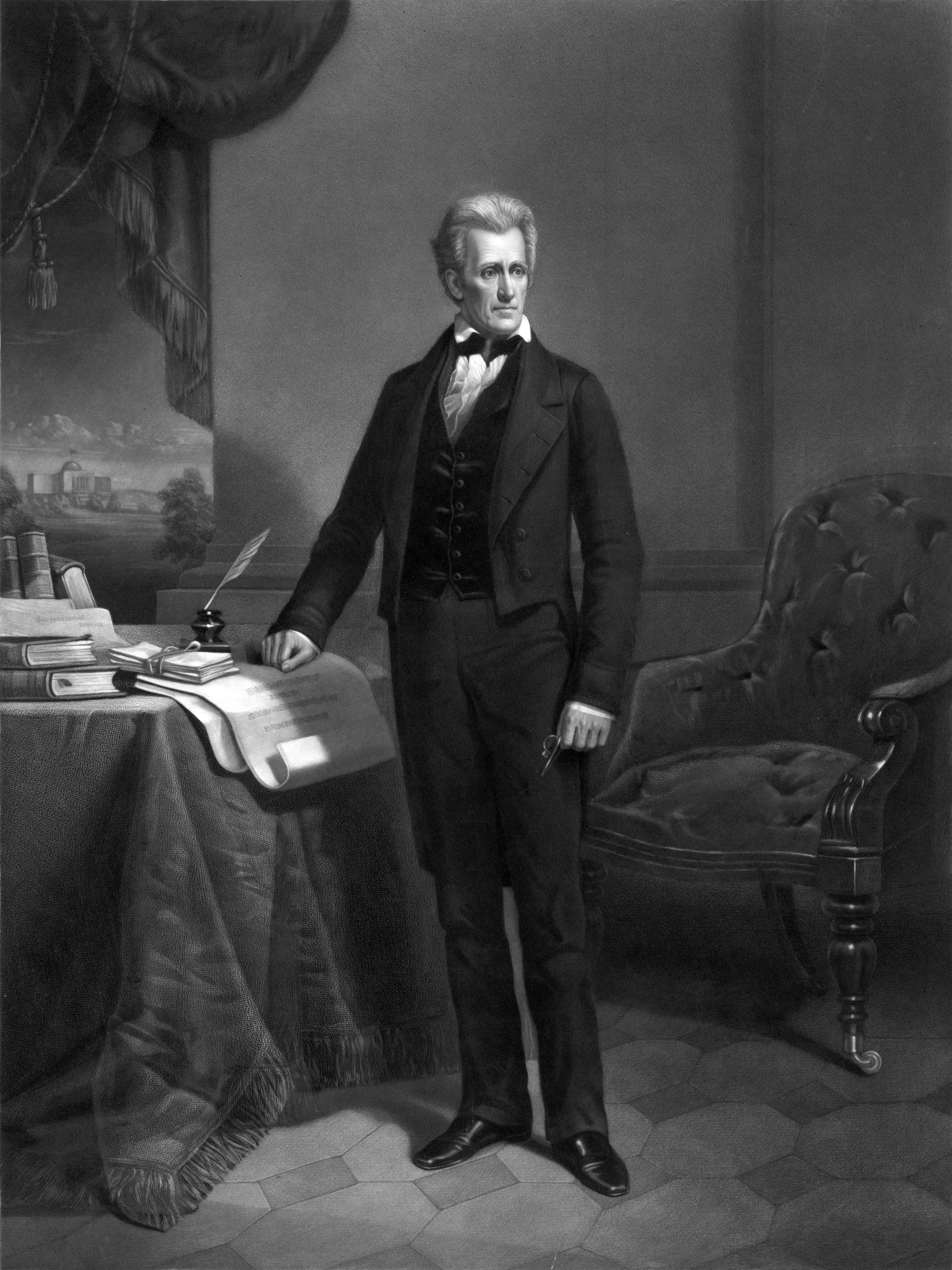 Andrew Jackson, full-length portrait, standing, facing front, hand resting on table.